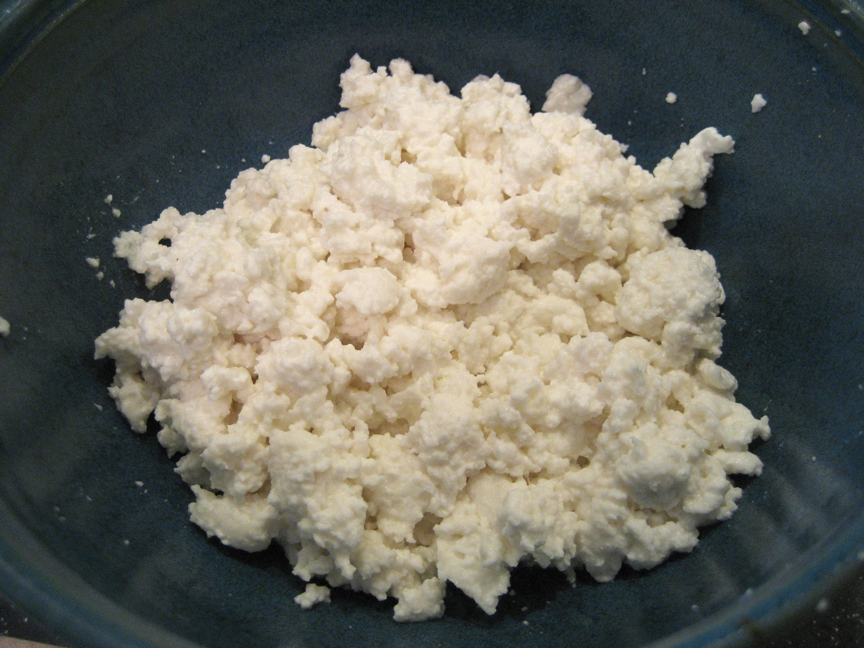 Homemade cottage cheese from milk and vinegar.